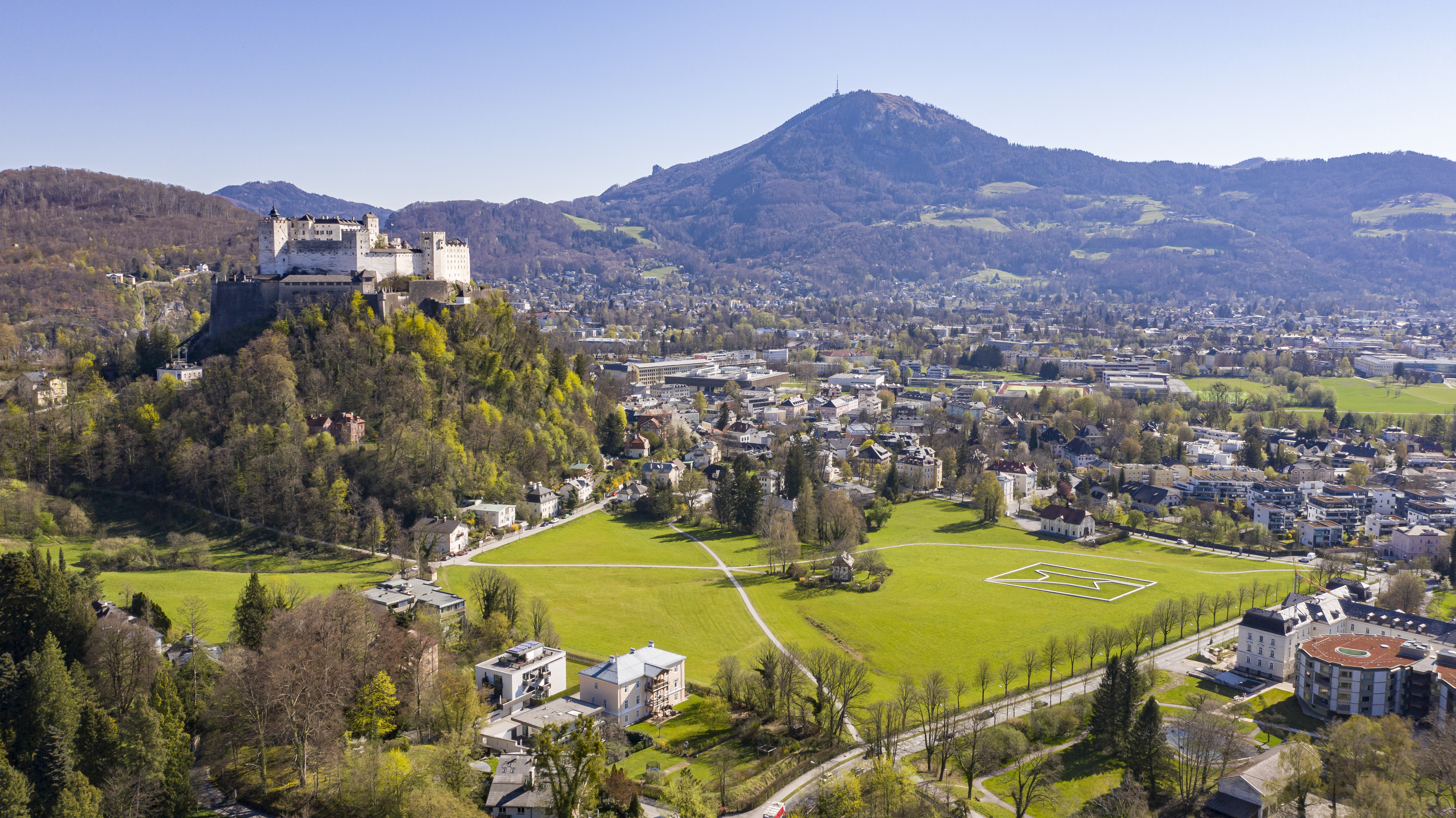 Aerial view of Salzburg, Austria